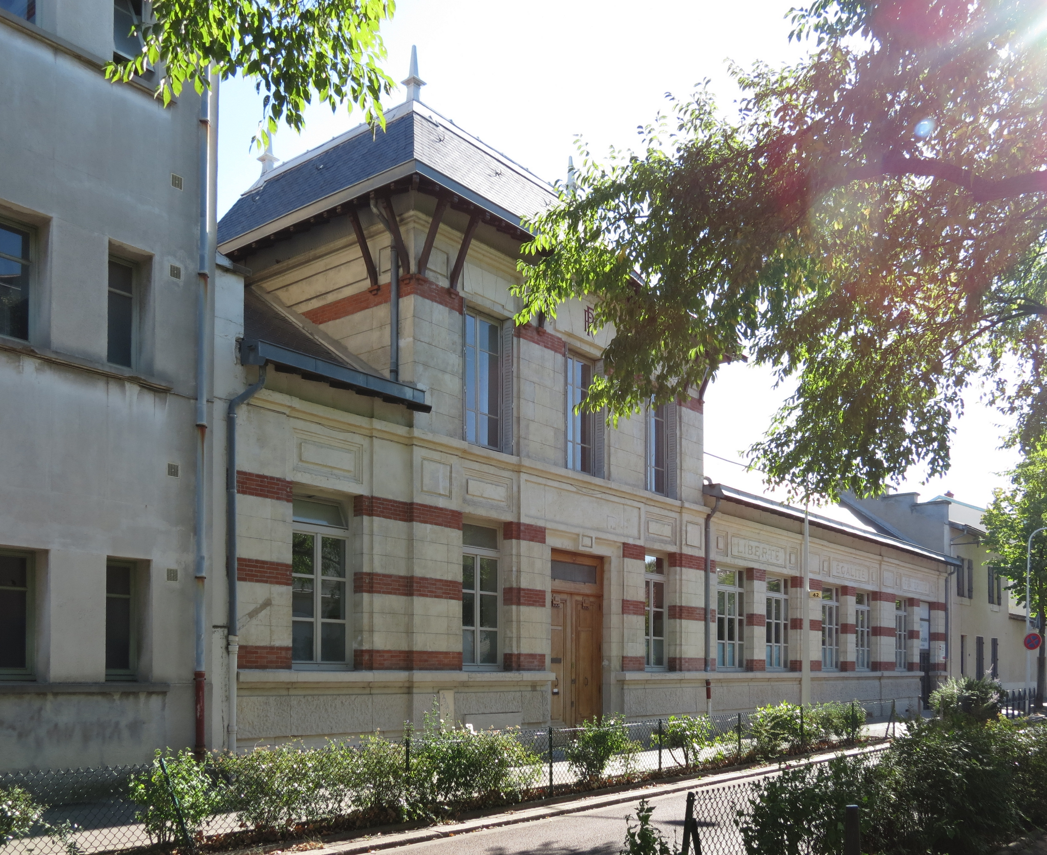 public urban XIX century building without floor eight windows and two doors, topped with another floor above three openings only.